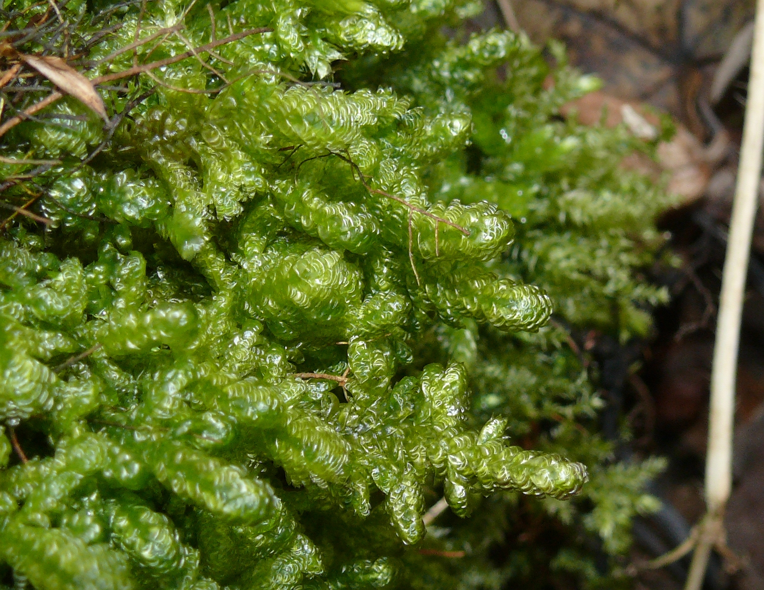 Neckera crispa, Hohenlohe, Germany